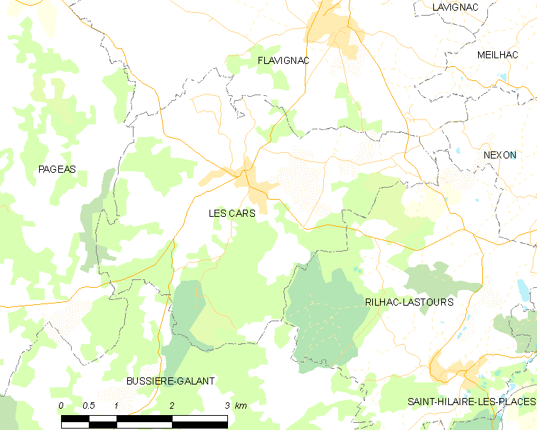 Map of French municipality Les Cars